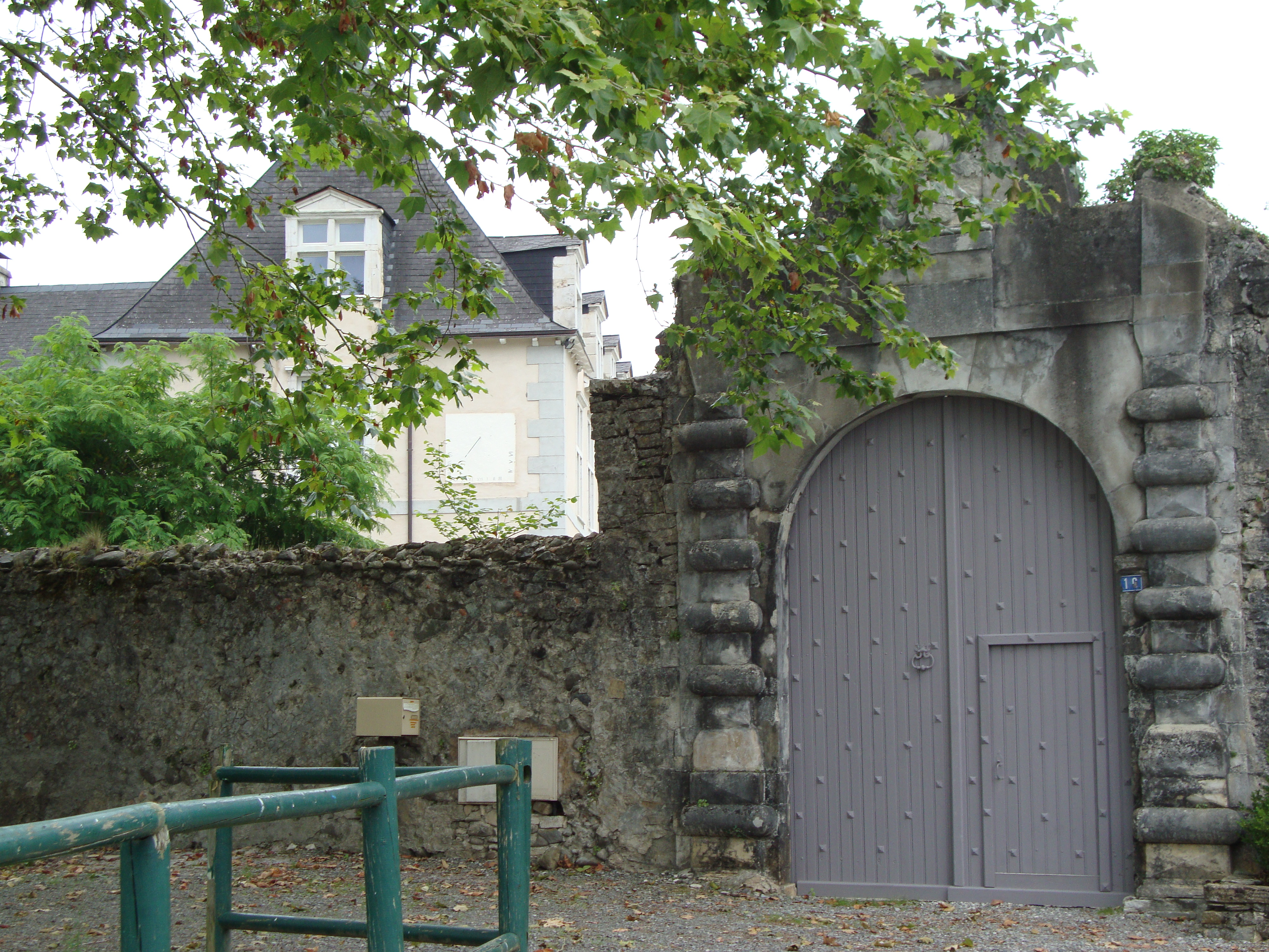 Agnos (Pyr-Atl, Fr) gate with a glimpse of the castle